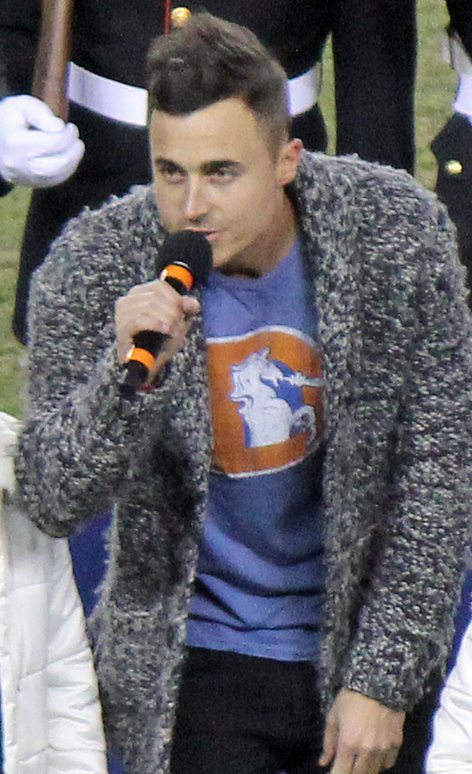 Joe King, a guitarist and member of the band The Fray.